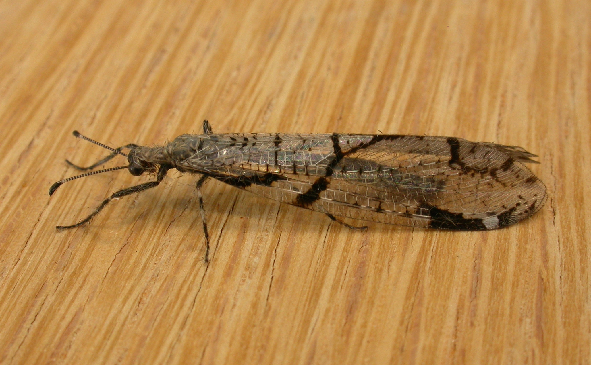 Dendroleon amabilis (Gerstaecker), to MV light, Aranda, ACT, 25/26 December 2008